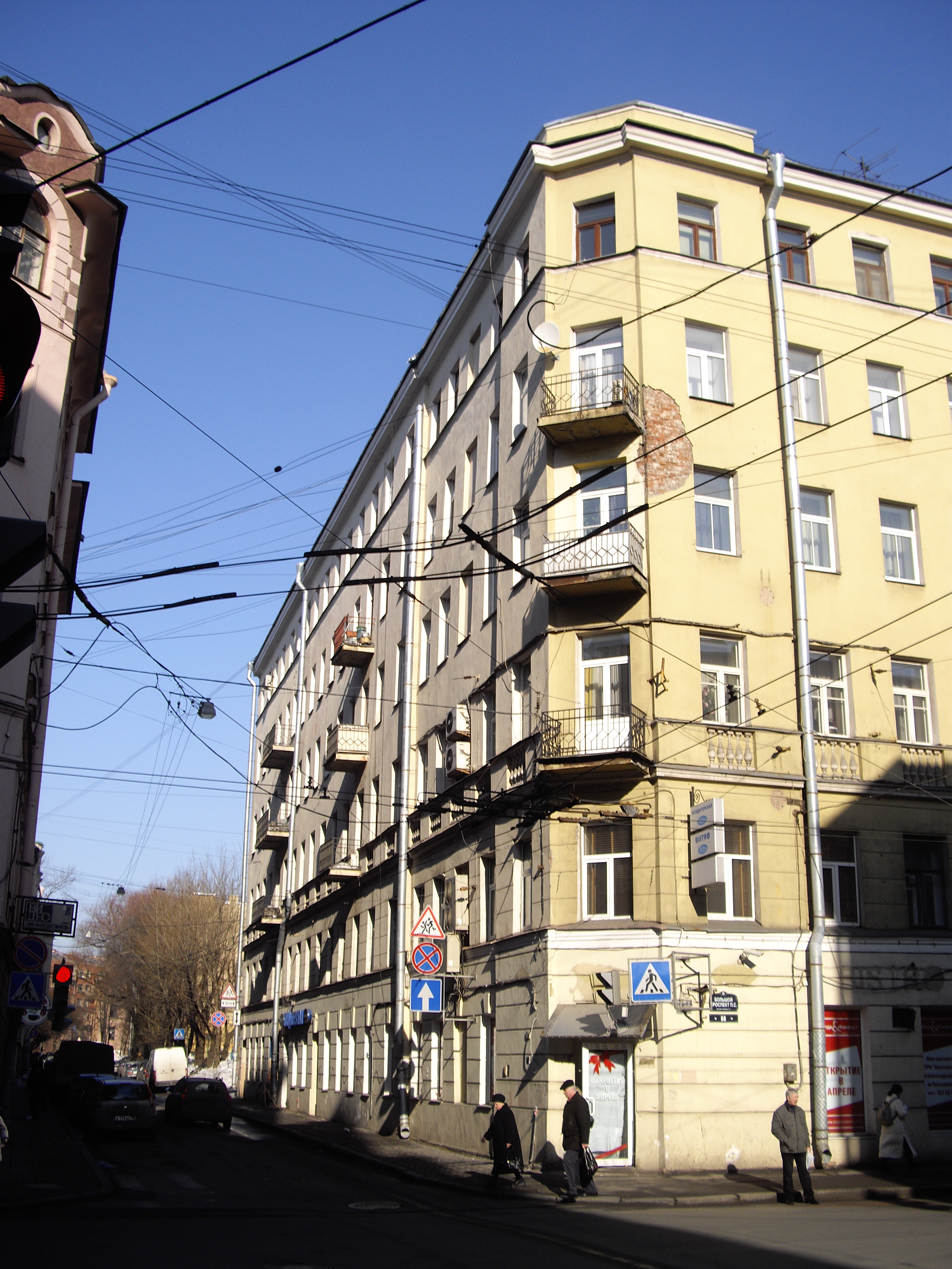 Ordinarnaya Street in Saint Petersburg at the crossing with Bolshoy Prospekt (Petrograd Side)